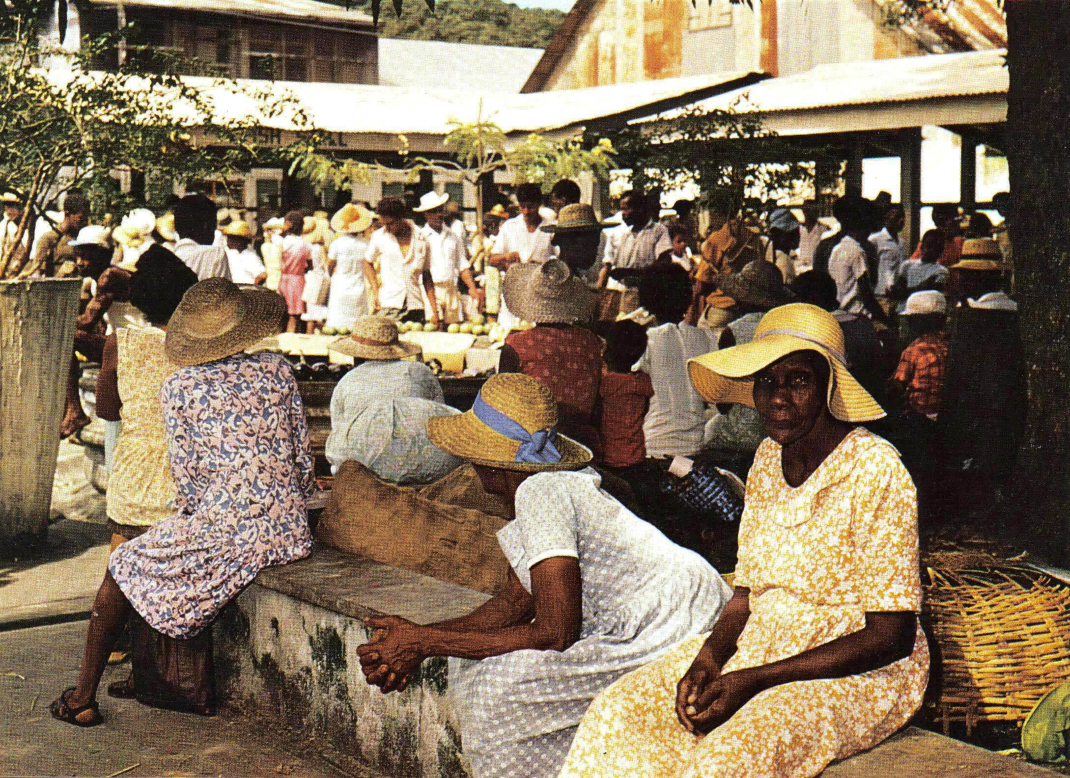 Market scene on the Seychelles